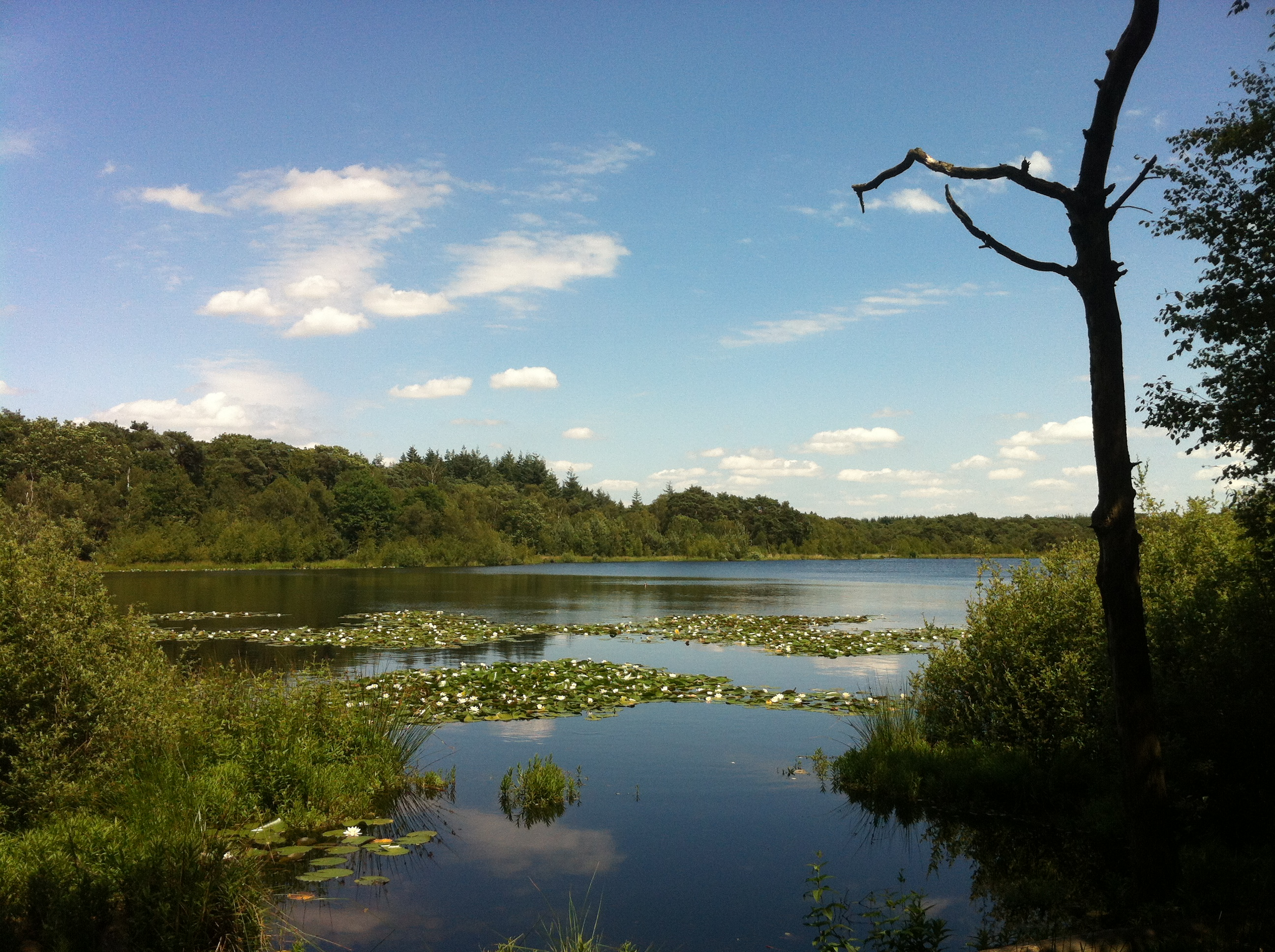 Hazenputten Fen in the Vresselse Bossen, as seen from the north-west during summer